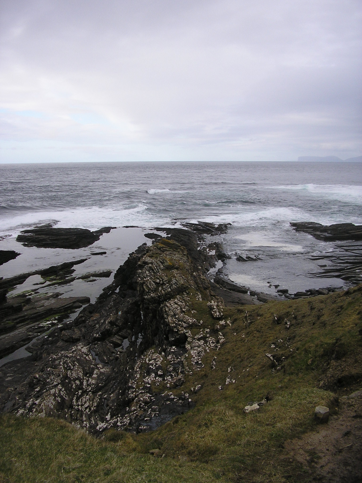 Monocline formed at the tip of a minor thrust, Brims Ness, Caithness